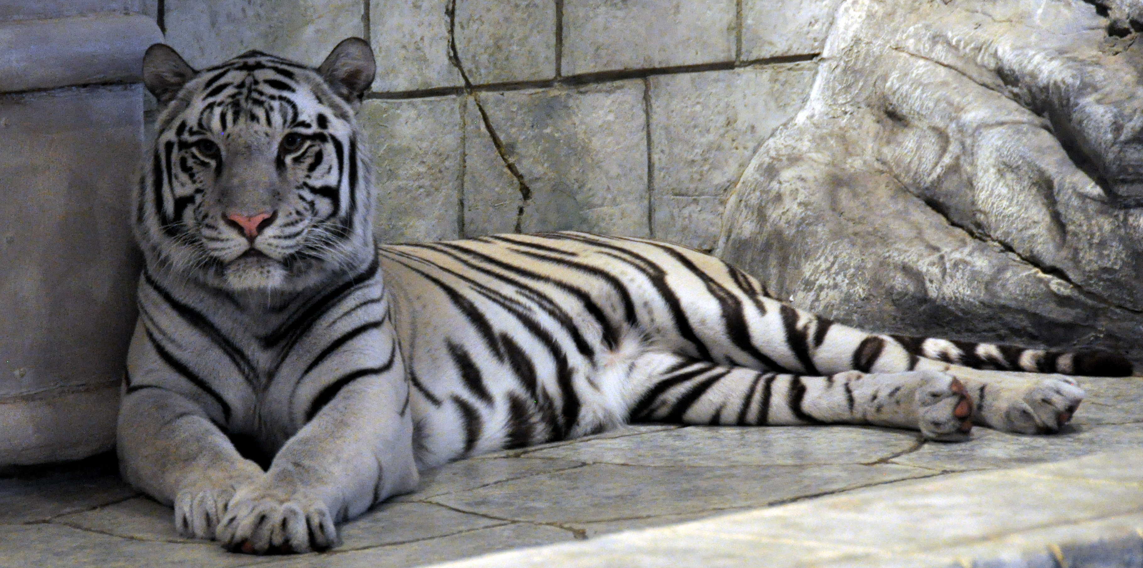 White Tiger in Houston Aquarium